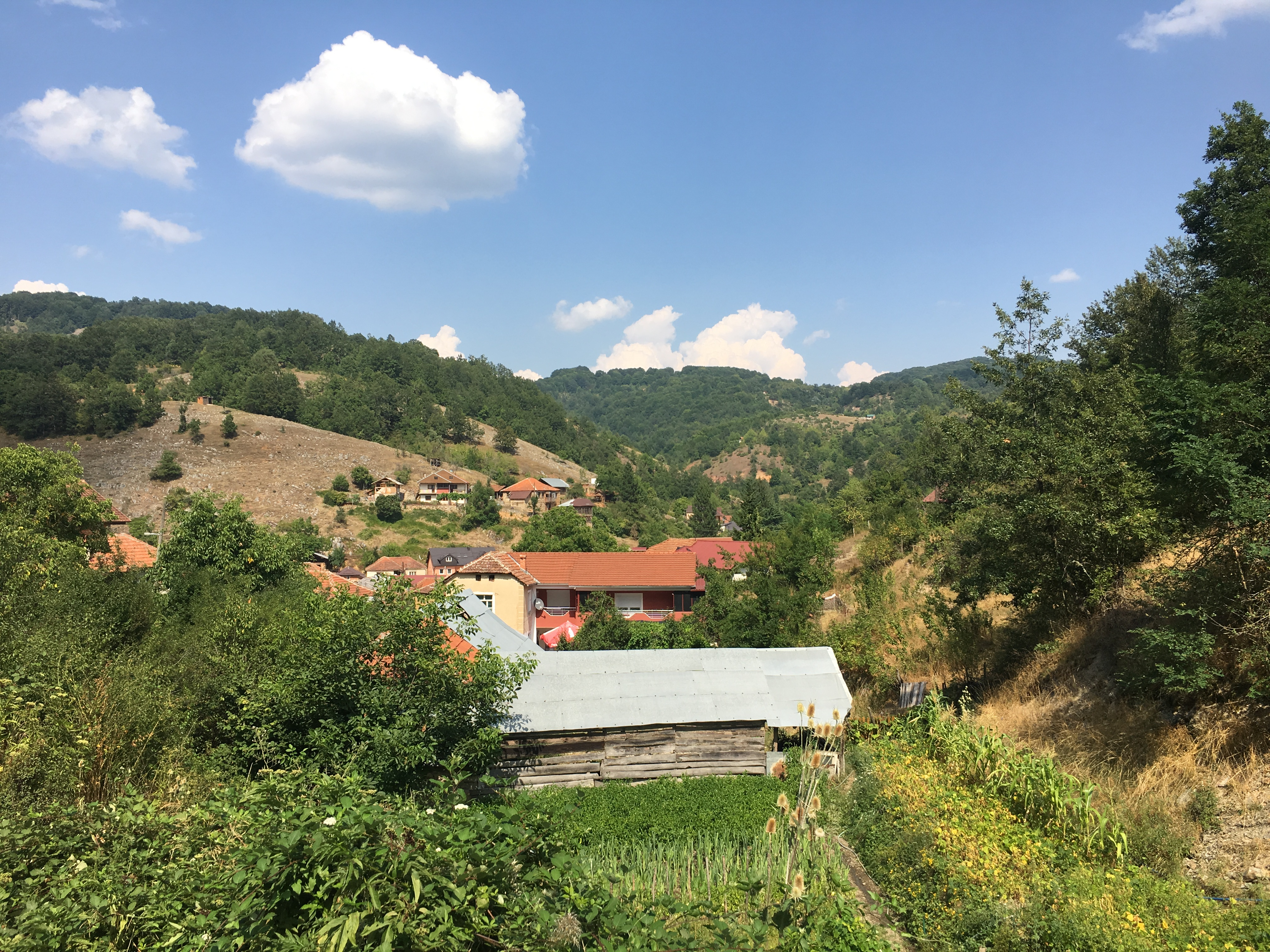 A view of the village of Kuratica